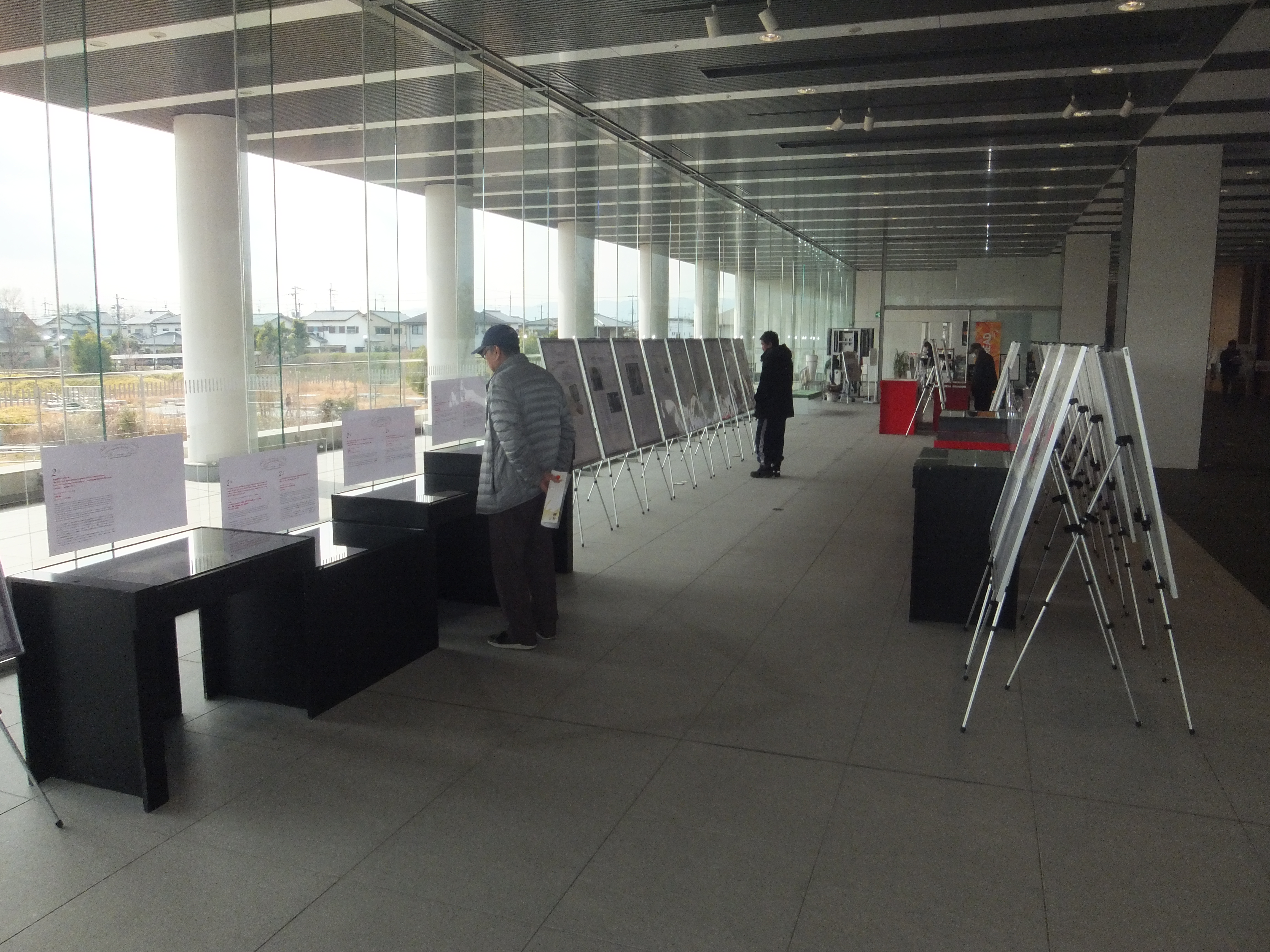 Exhibition Area, Nara Prefectural Library and Information Center